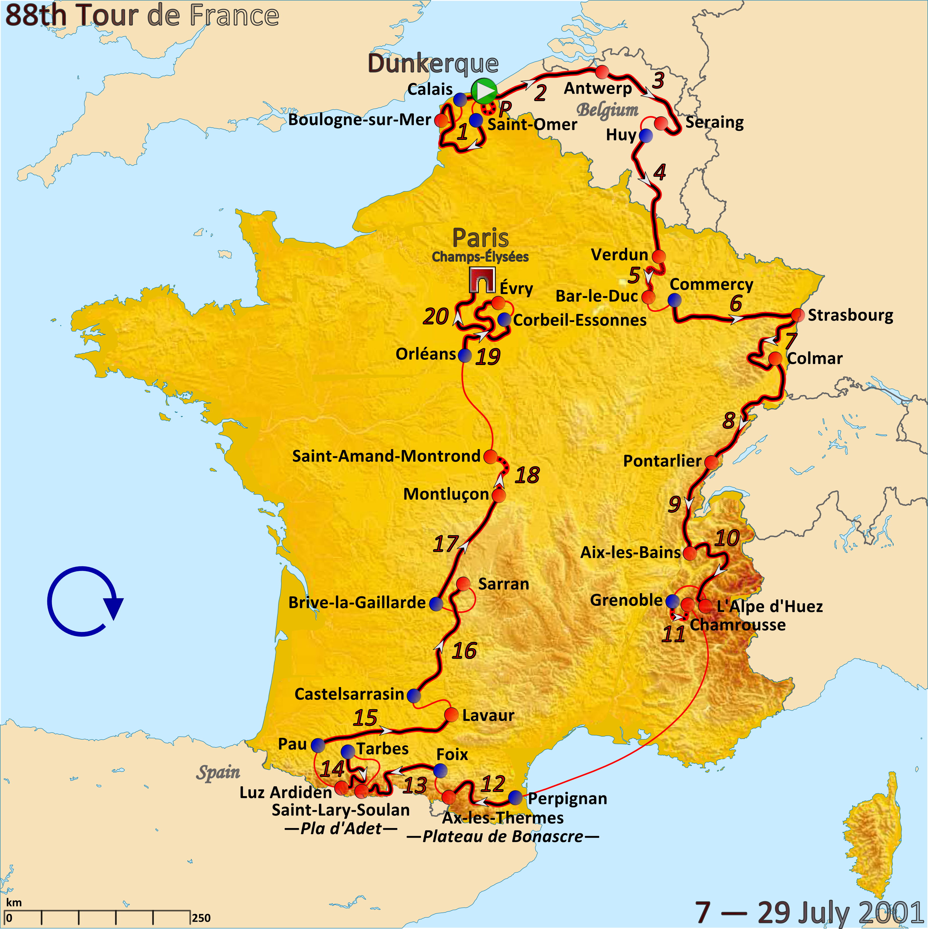 Map of the 2001 Tour de France created in Inkscape